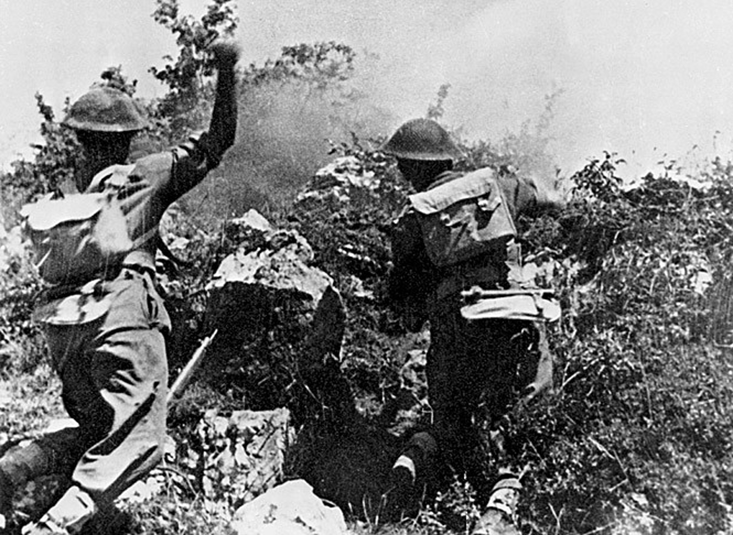 Soldiers of 2nd Polish Corps in the battle of Monte Cassino